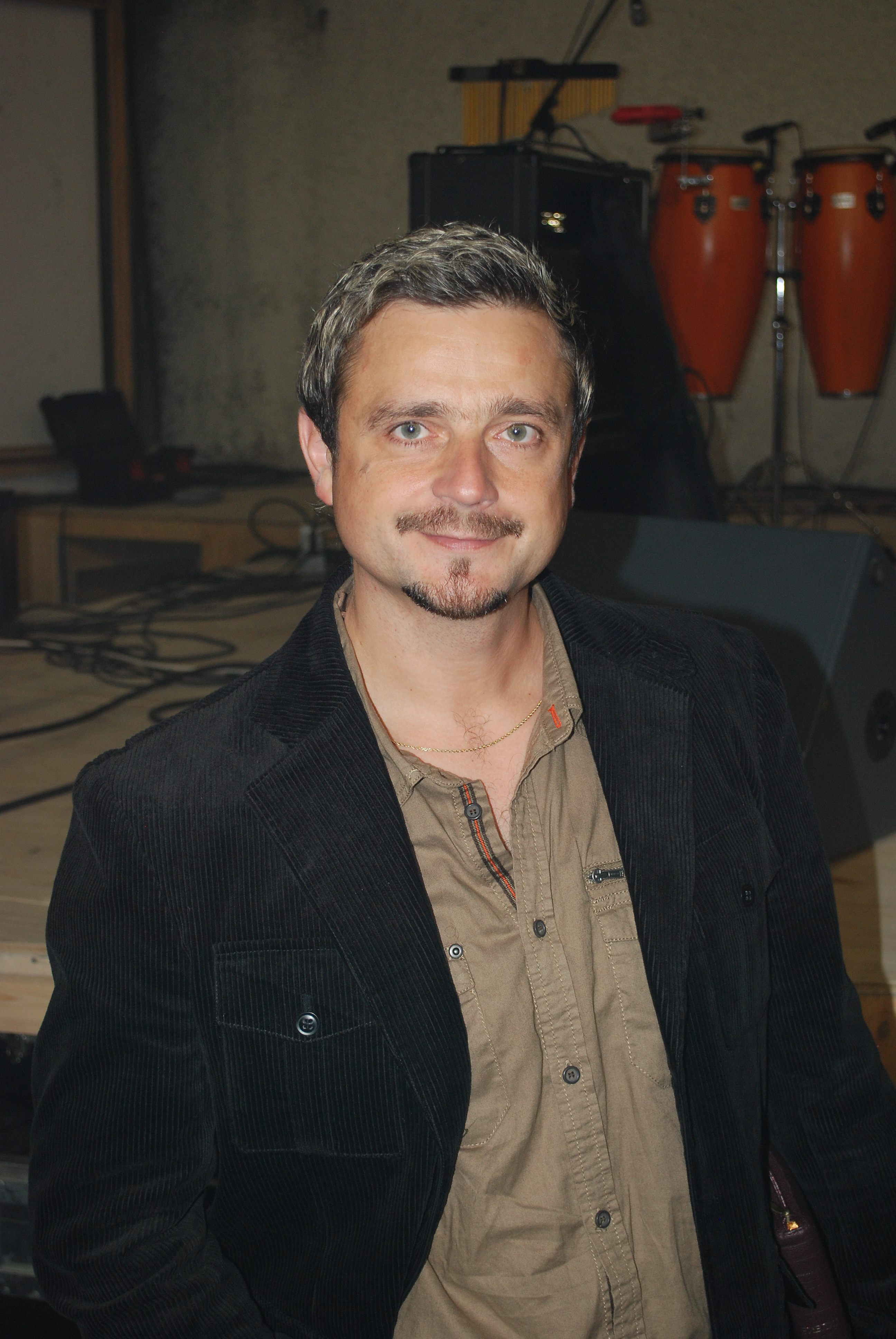 Alexander Patlis, musician and preacher, Russia and Belarus